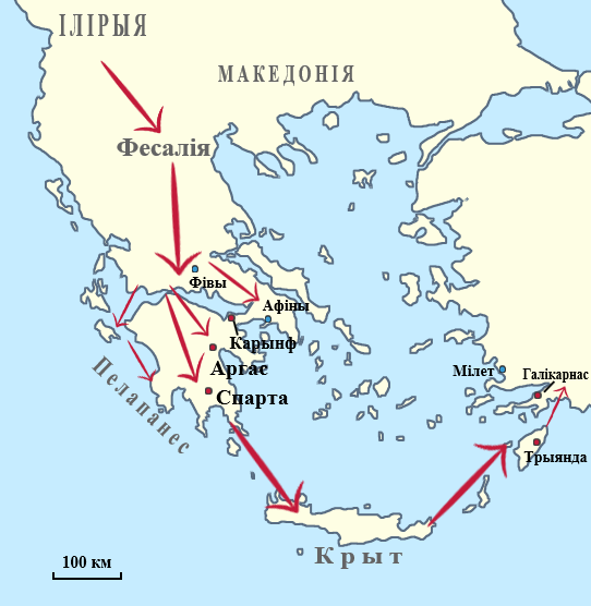 Dorian invasion